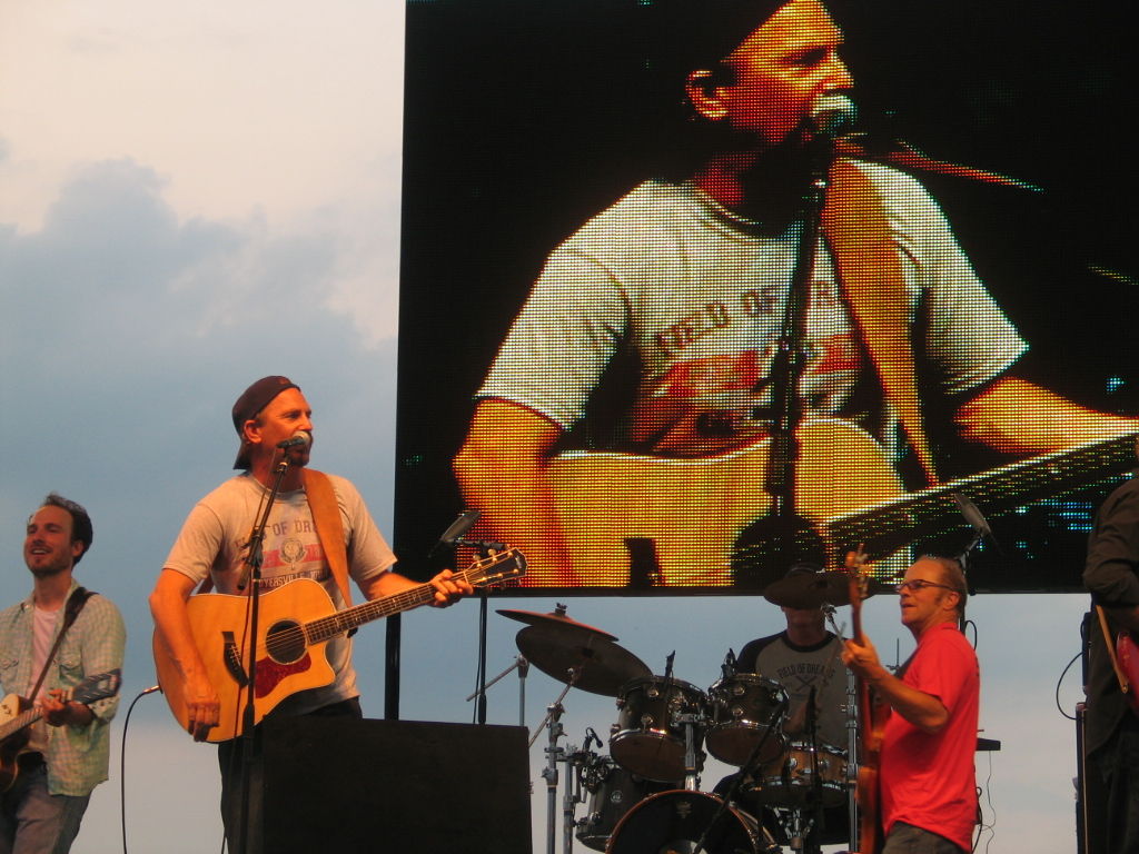 Netflix Rolling Roadshow at the actual Field of Dreams site. Kevin Costner and his unnamed-band appeared live before the film.